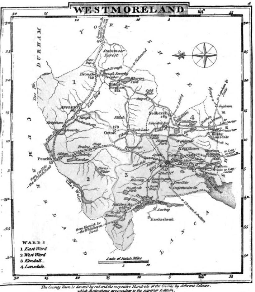 Westmoreland